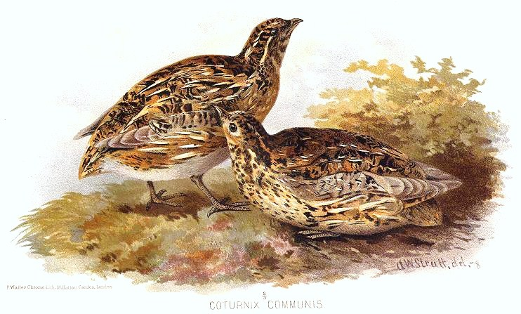 Coturnix communis = Coturnix coturnix (Caille des blés)